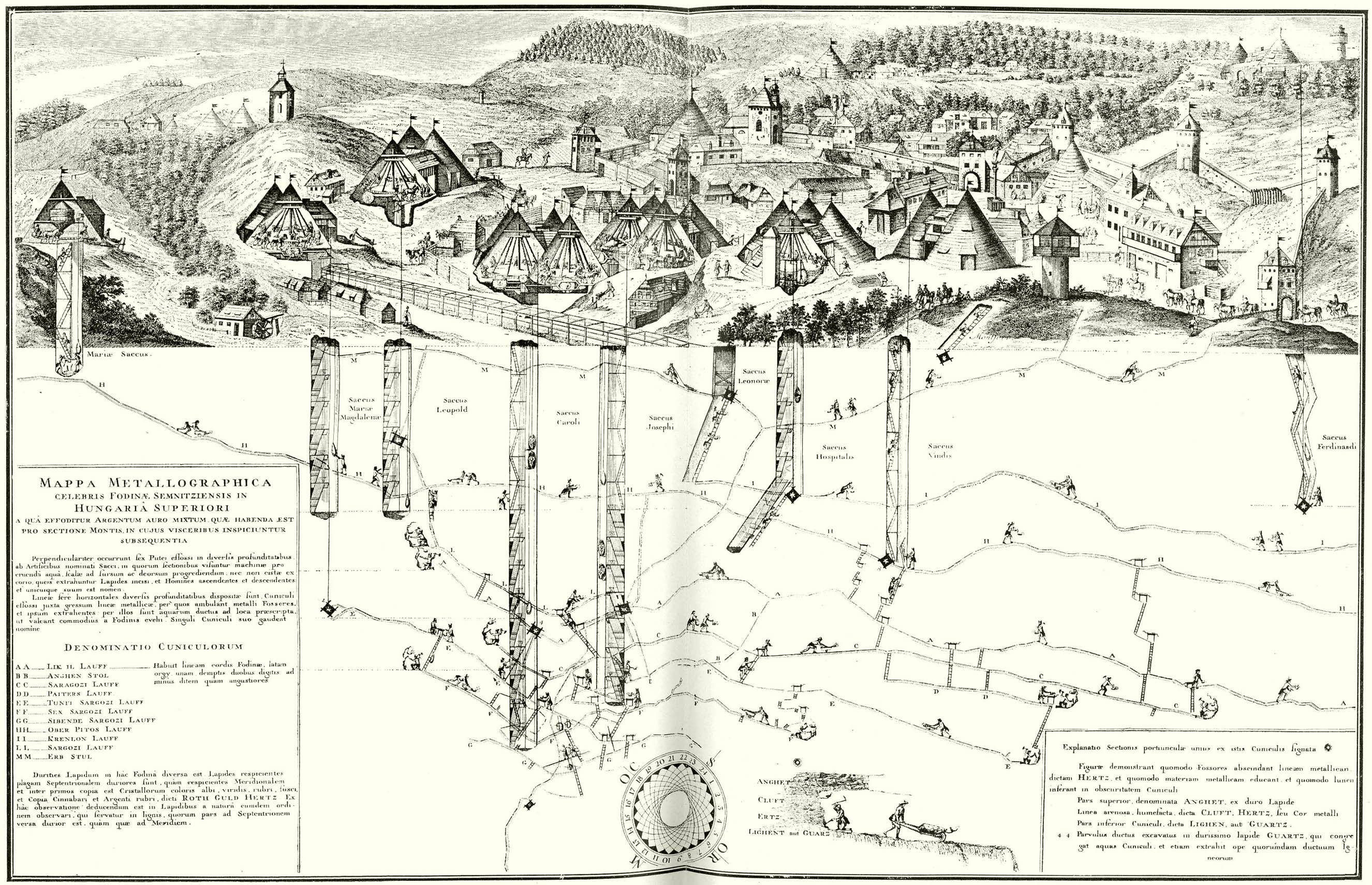 Drawing of the mining town of Banská Štiavnica (German: Schemnitz). Published in the 1726 work Danubius Pannonico-Mysicus by the Italian naturalist and soldier Luigi Ferdinando Marsigli (1658 – 1730).